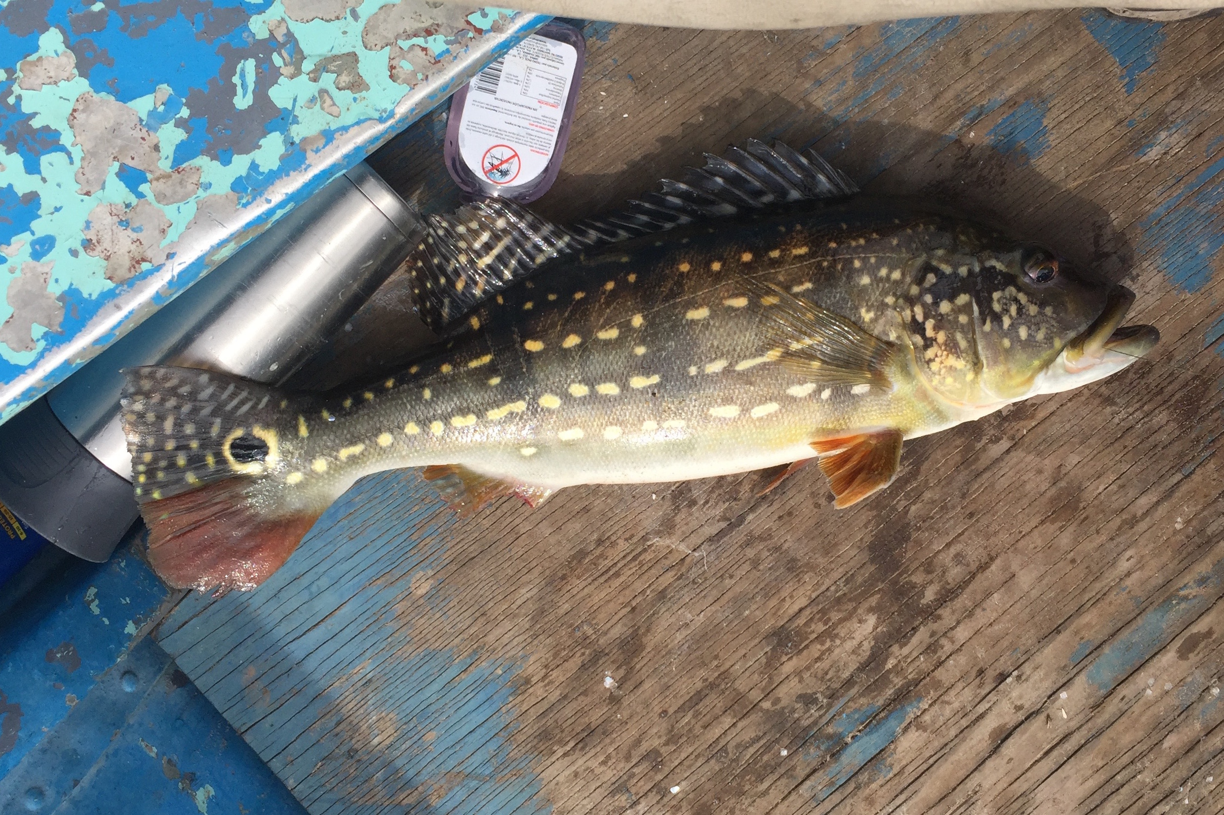 A speckled peacock bass fished in the Cinaruco River